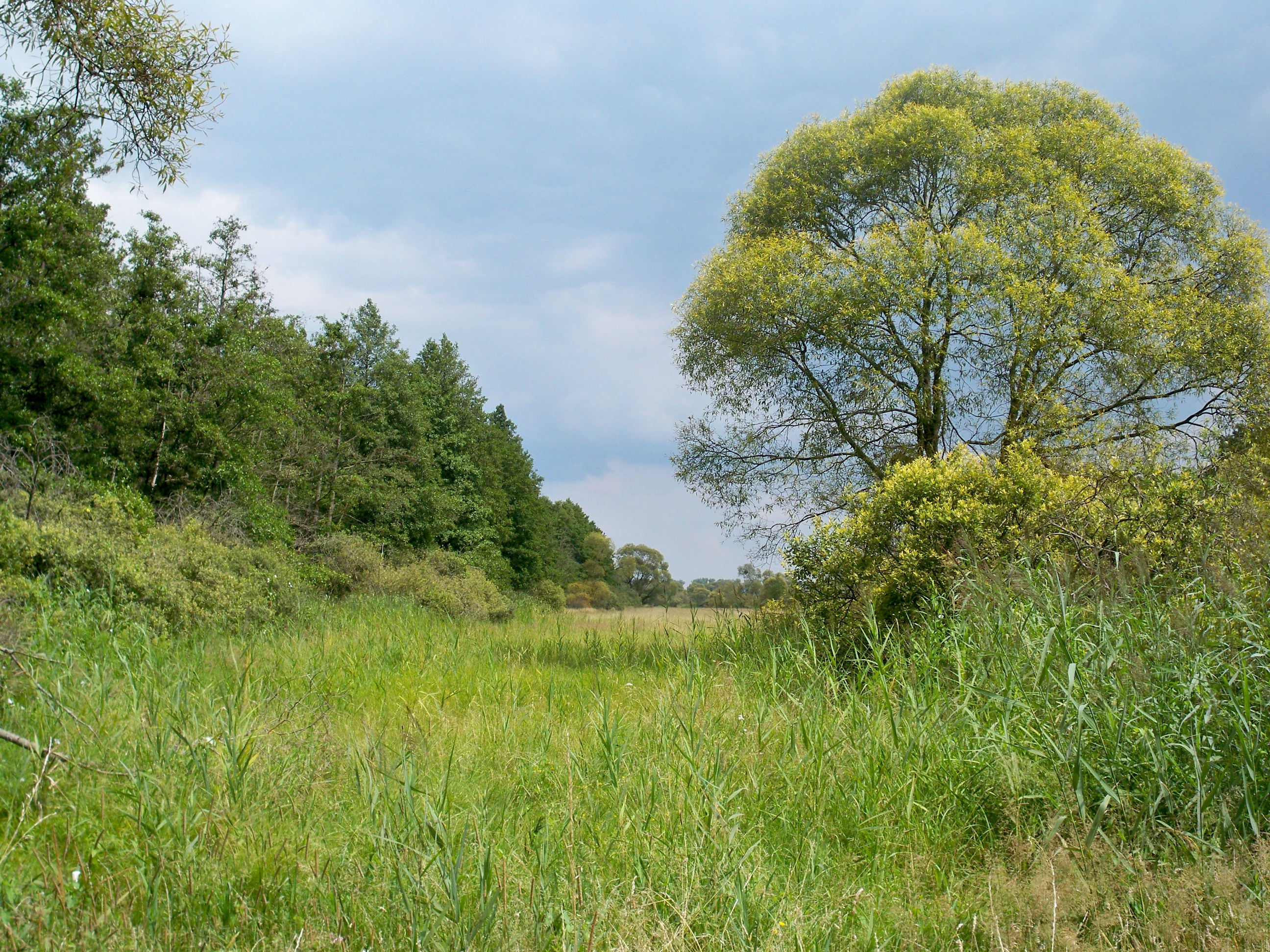 Nature Reserve Kaiserwinkel, Lower Saxony